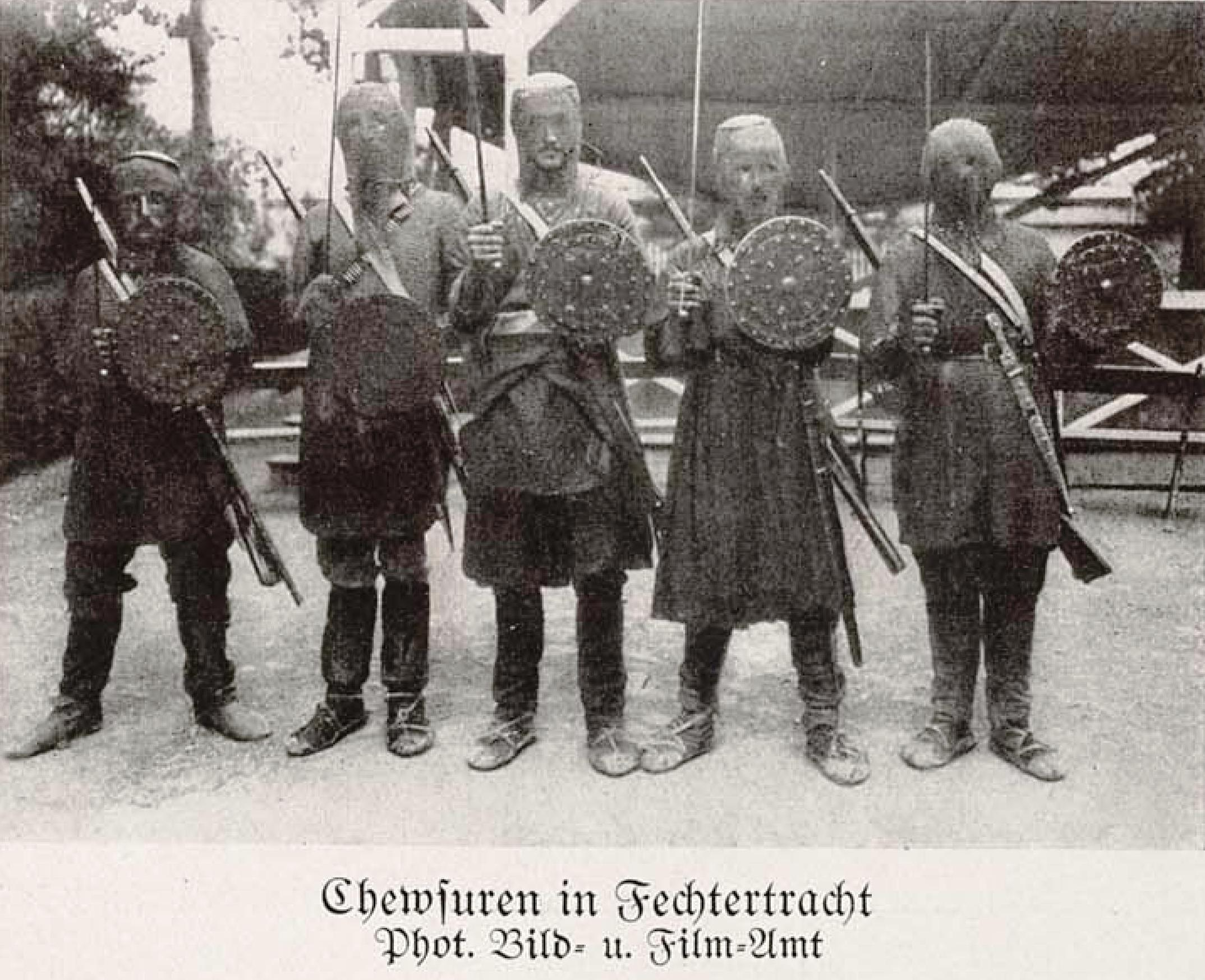 German Caucasus Expedition